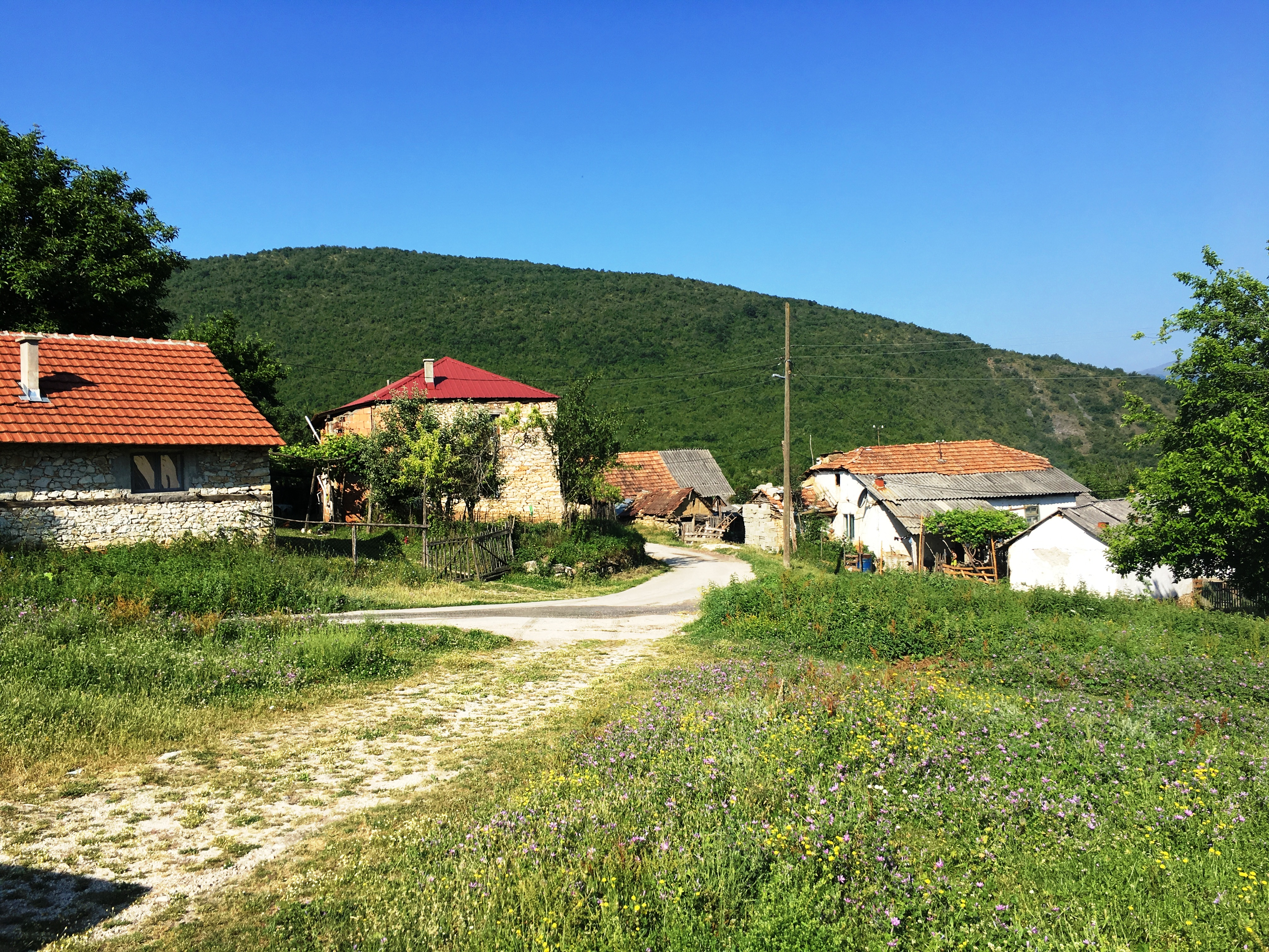 View of the village of Crešnevo